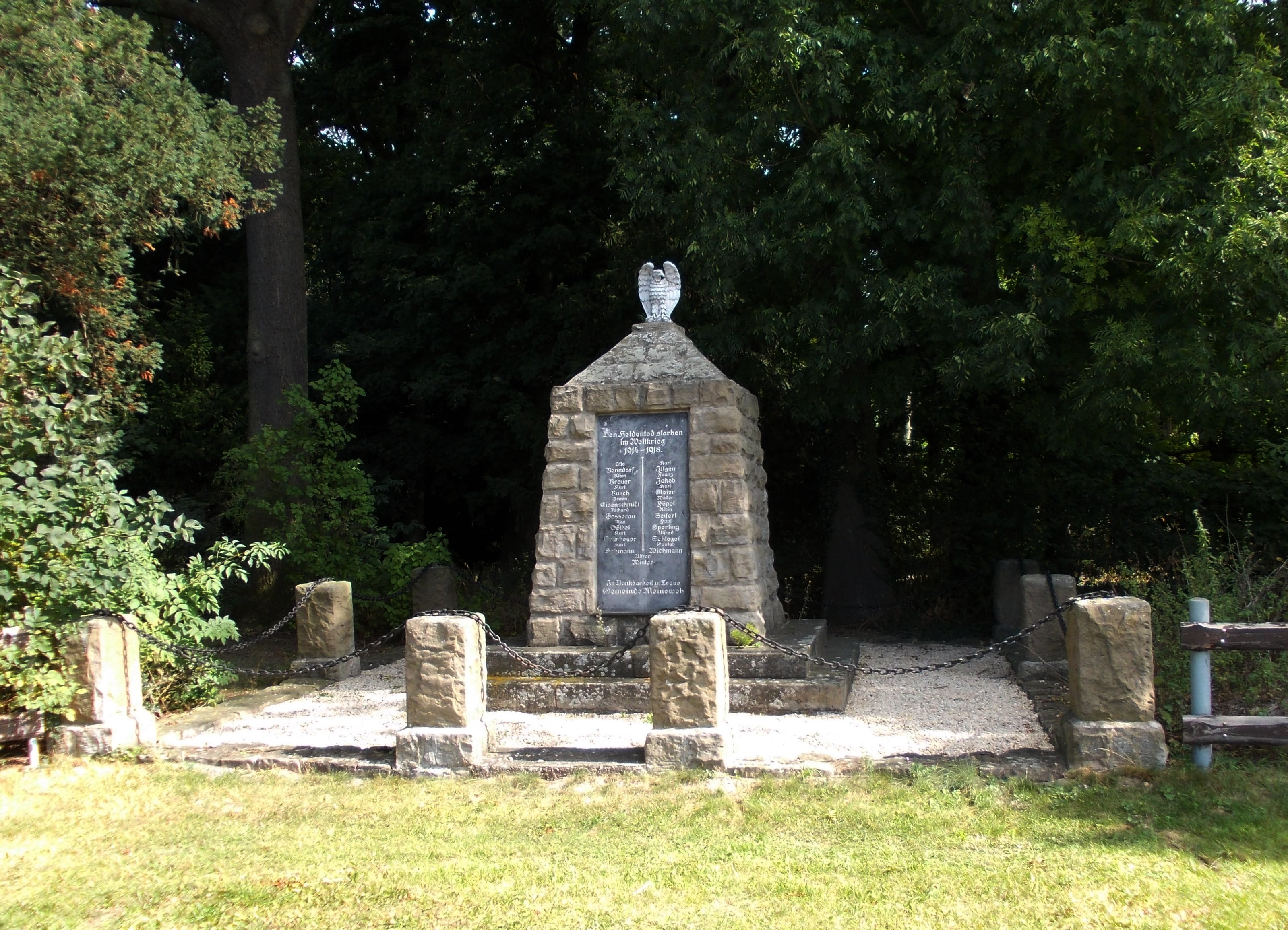 World War I memorial in Meineweh (district of Burgenlandkreis, Saxony-Anhalt)